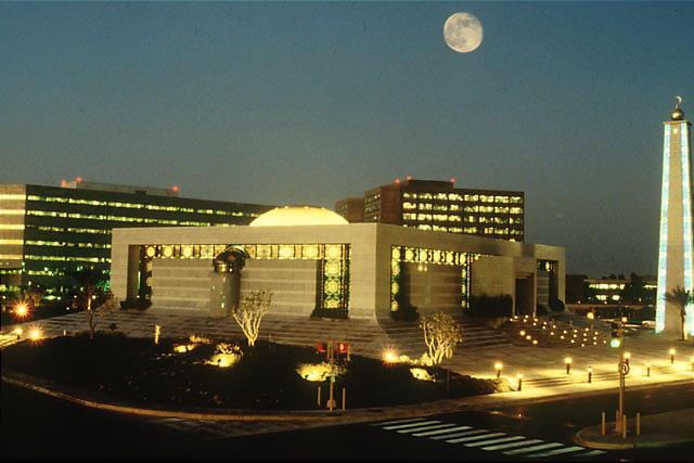 Saudi Aramco's core area which includes the headquarters and office buildings in Dhahran city. The buildings which appear in this picture are the Al Mujamma Mosque (foreground), Administration buildings (right background Two Towers), Old Admin Building (right background shown between Mosque and Minaret) and Engineering building (left background). Exploration and Production (EXPEC) building and Exploration Computing Center are behind the Engineering building and are not visible in this photo.